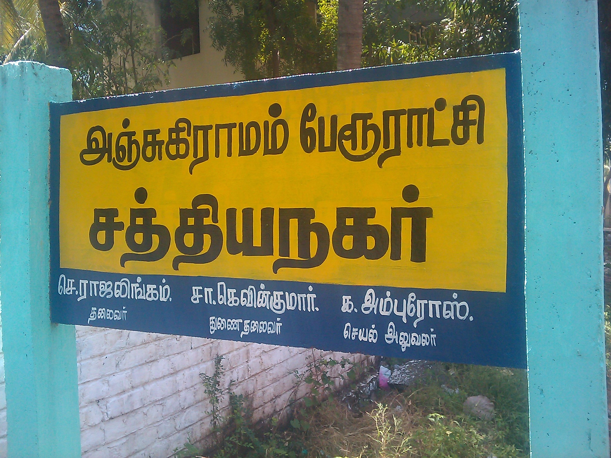 A view of a place sign in Anjugramam panchayat